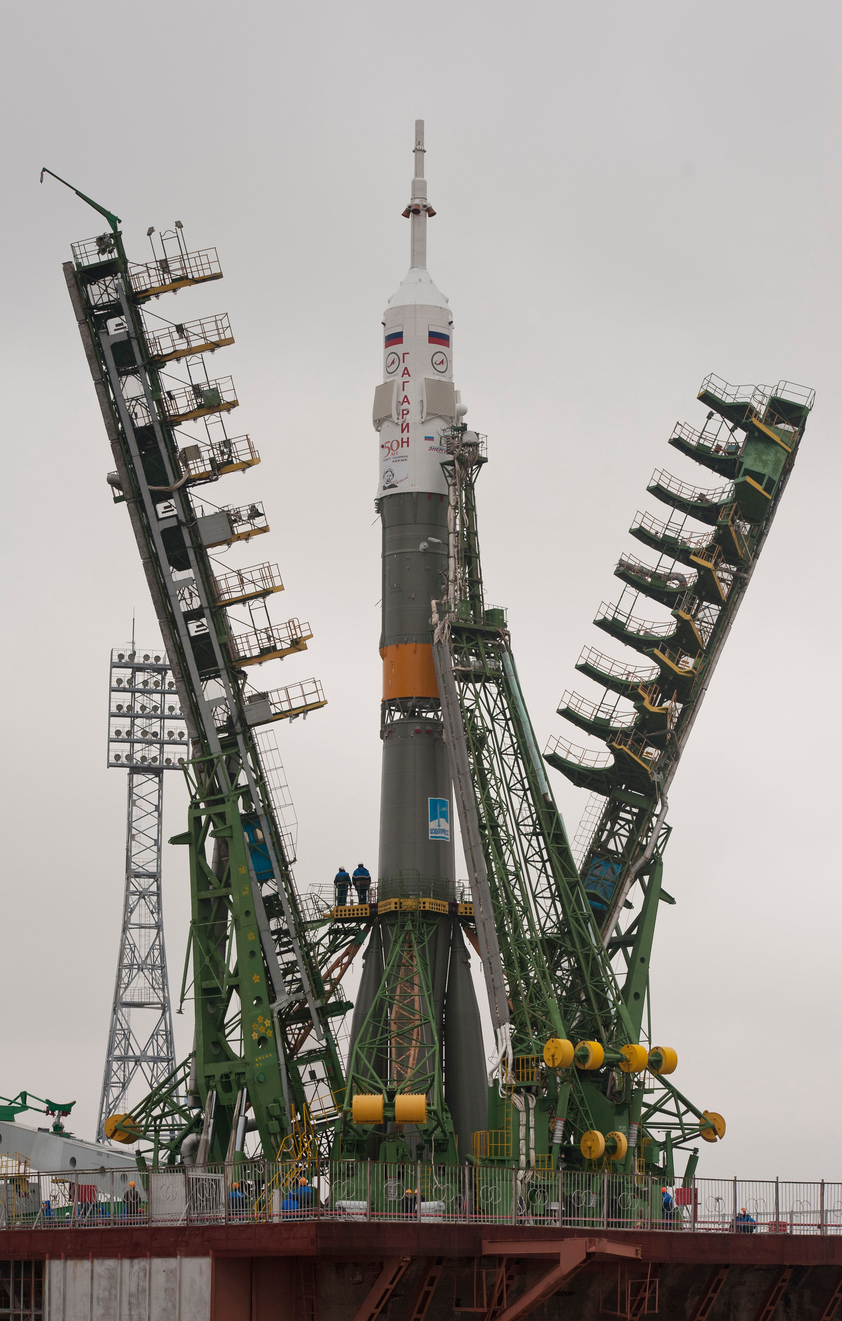 The Soyuz TMA-21 spacecraft is lifted into position on the launch pad at the Baikonur Cosmodrome in Kazakhstan, April 2, 2011. The Soyuz, which has been dubbed "Gagarin", is launching on April 5, 2011 (Kazakhstan time) -- one week shy of the 50th anniversary of the launch of Yuri Gagarin from the same launch pad in Baikonur on April 12, 1961 to become the first human to fly in space. The first stage of the Soyuz booster is emblazoned with the name "Gagarin" and the likeness of the first person to fly in space.